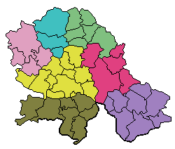 Map of districts in Vojvodina